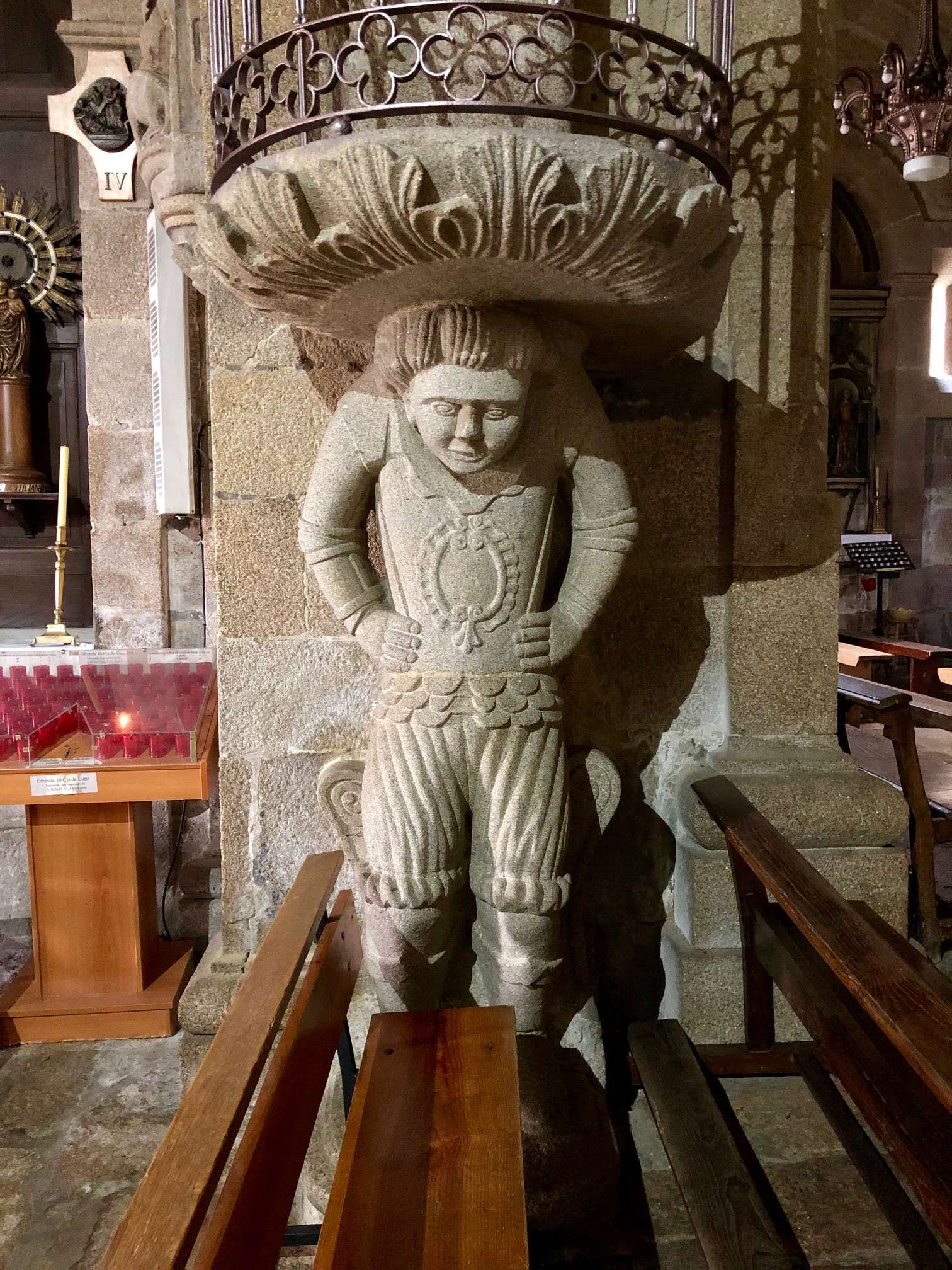 Atlas holding the pulpit of the church in Mourente (Pontevedra, Spain).